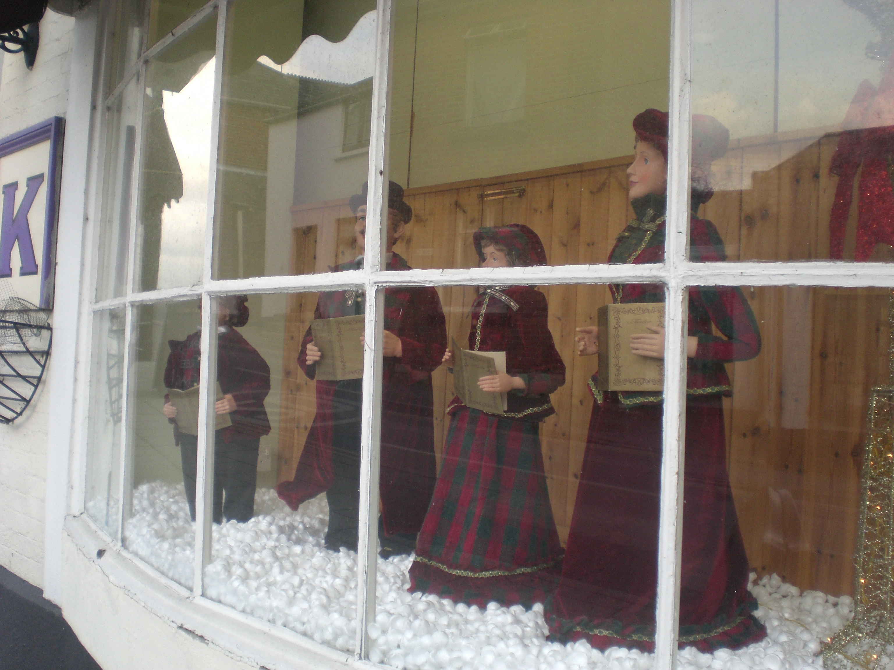 Carol singers forming part of a window display for the recently closed Brading Experience, Brading, Isle of Wight.